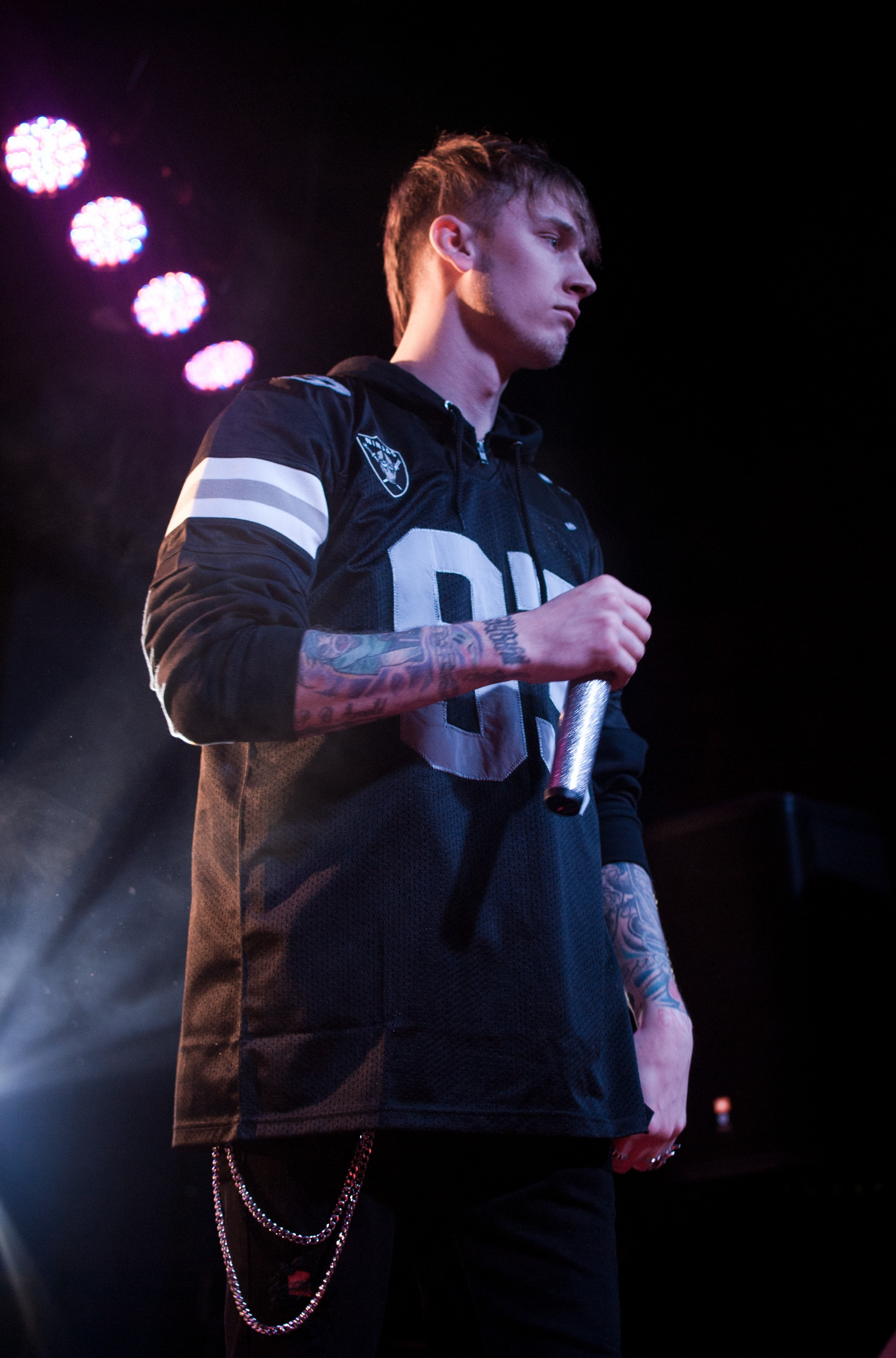 Machine Gun Kelly performing in Pittsburgh in 2013 on his Lace Up Tour